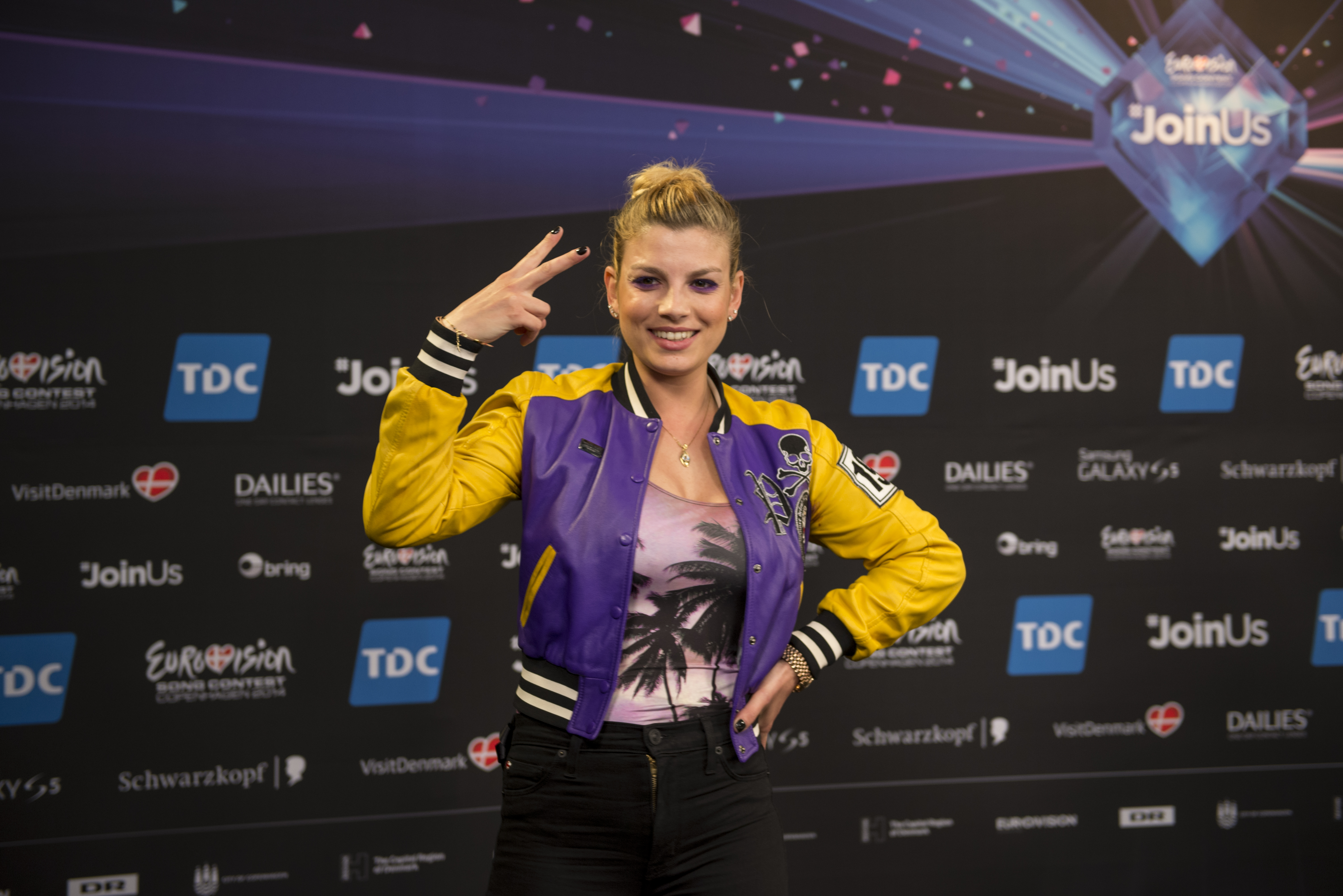 Emma Marrone at a Meet & Greet during the Eurovision Song Contest 2014 Copenhagen. (Help translate this text)